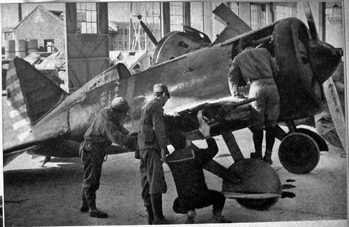 Japanese armed forces' aircraft engineers study Soviet I-16 fighter used by National Revolutionary Army. (Nanking, Dec. 22, 1937)